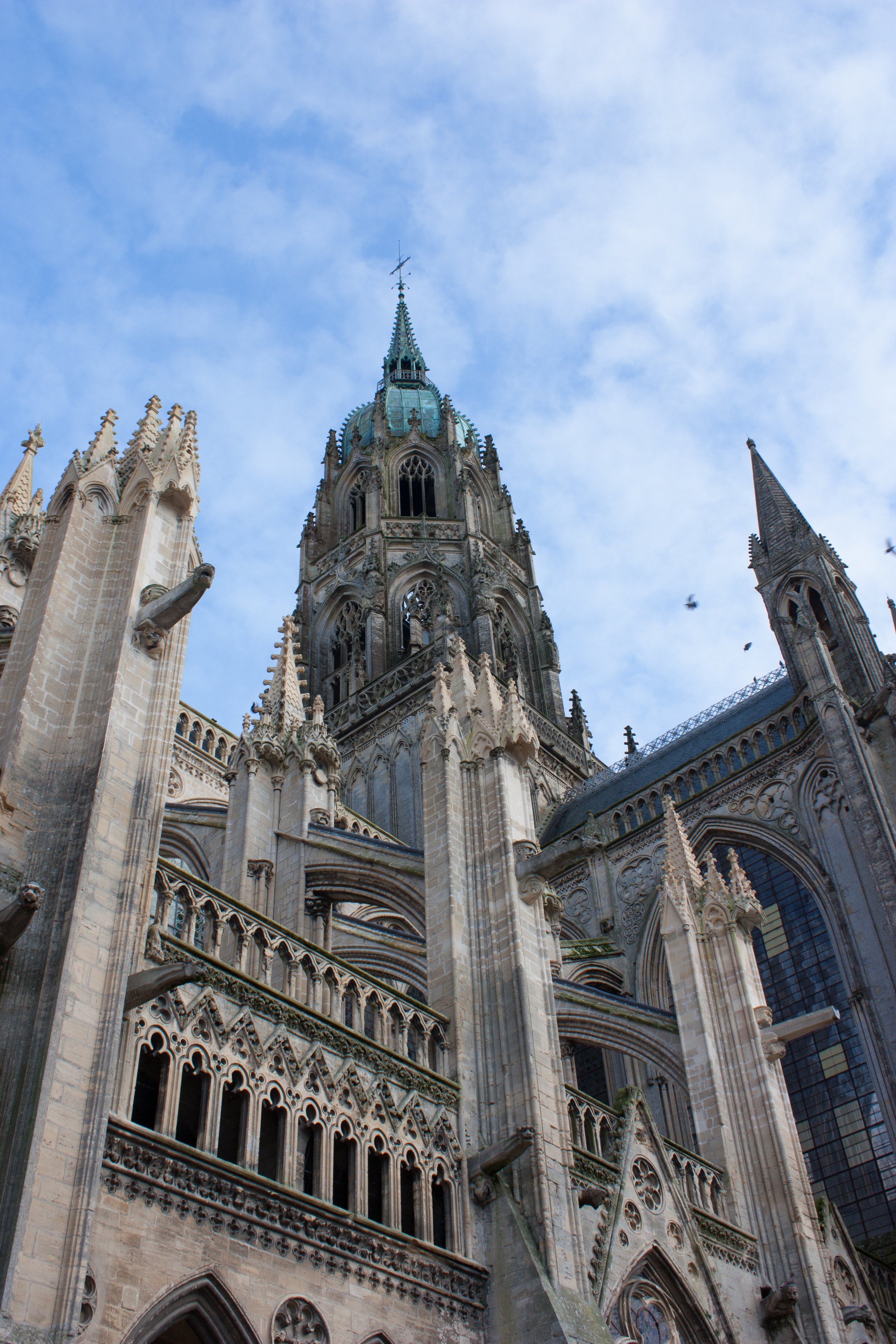 Notre-Dame de Bayeux cathedral's central tower as seen from the South-East. Photo taken in Bayeux (France).